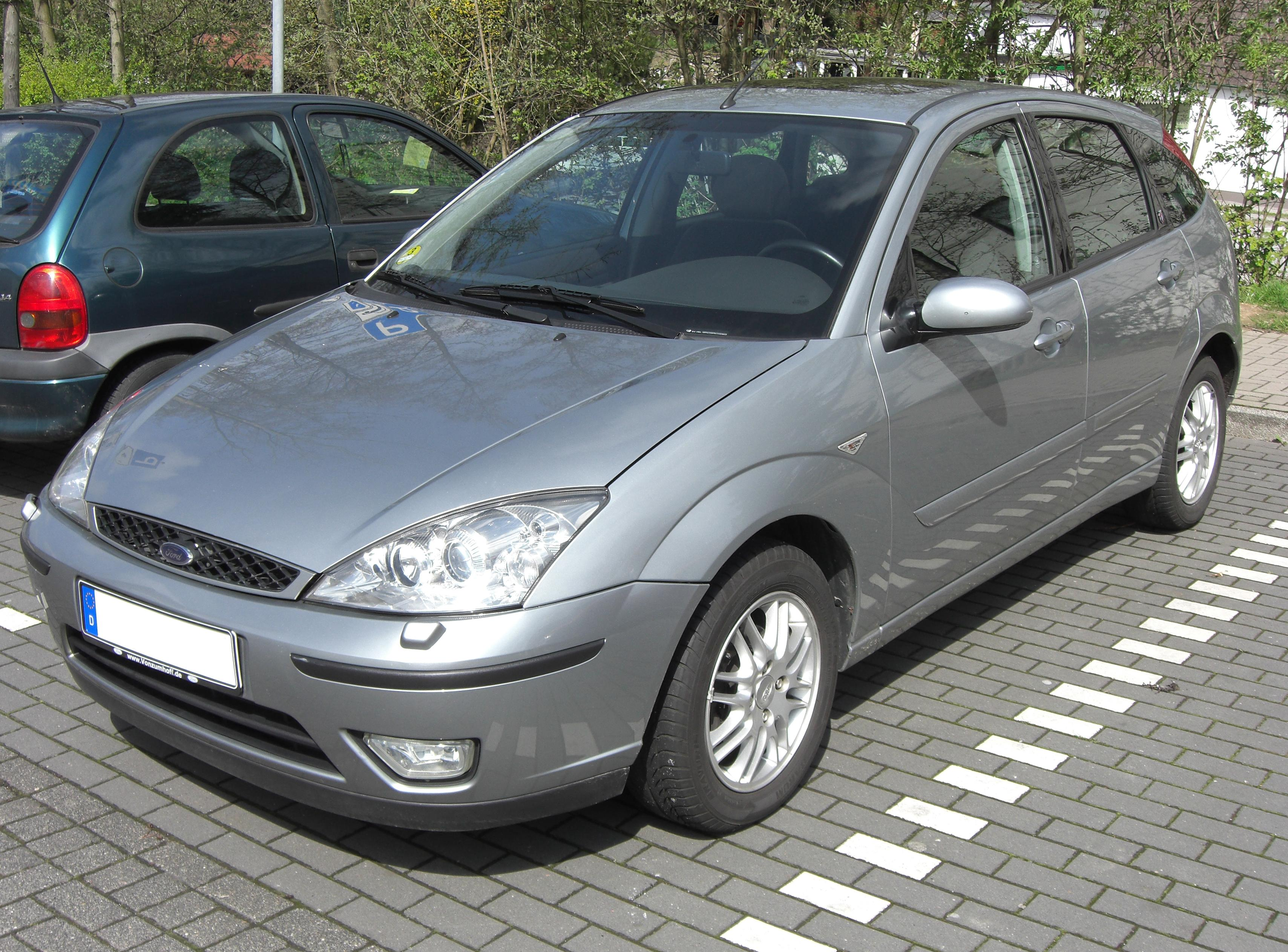 Ford Focus Facelift MK1